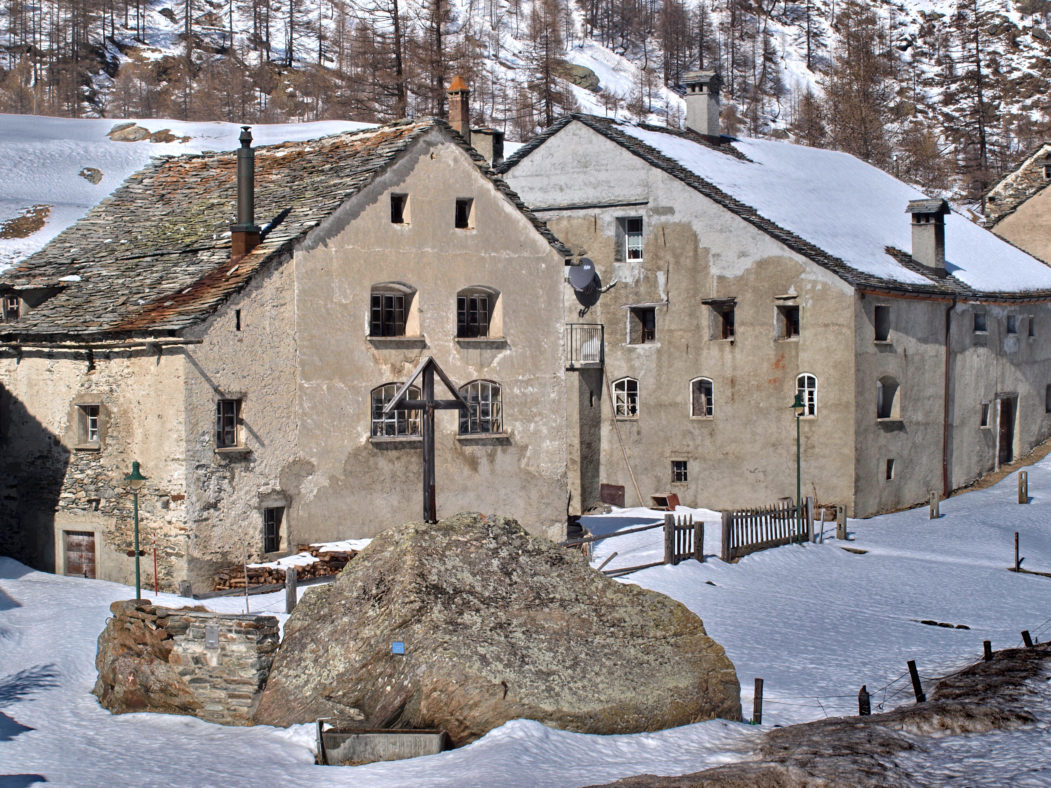 Egga {2011)